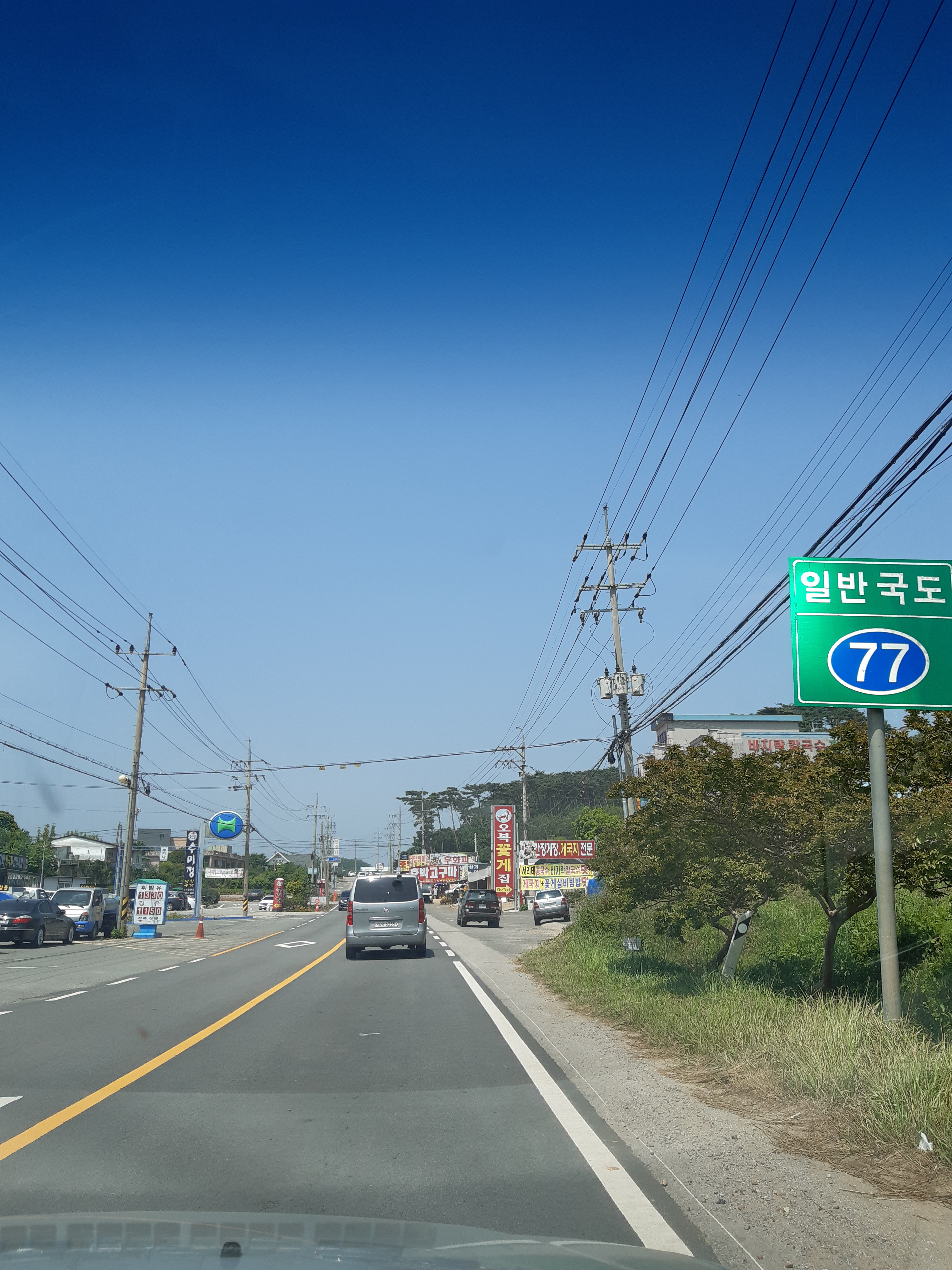 Korean National Route Number 77 near by Taean